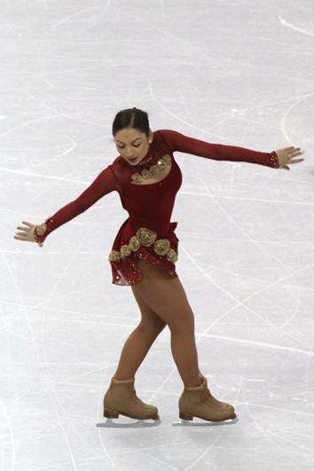 Elene Gedevanishvili at the 2010 Winter Olympics.